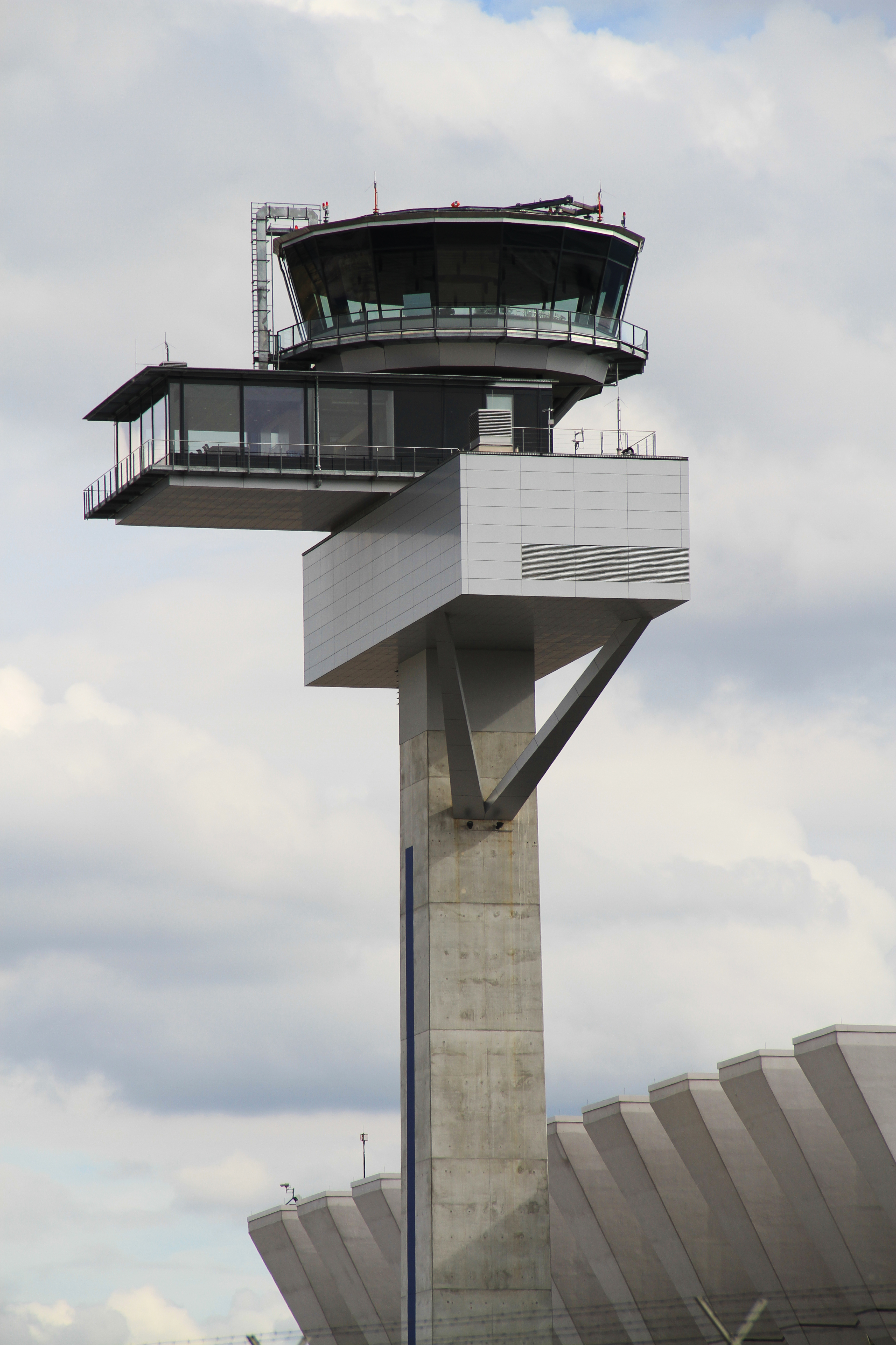 Frankfurt Airport - the new control tower.